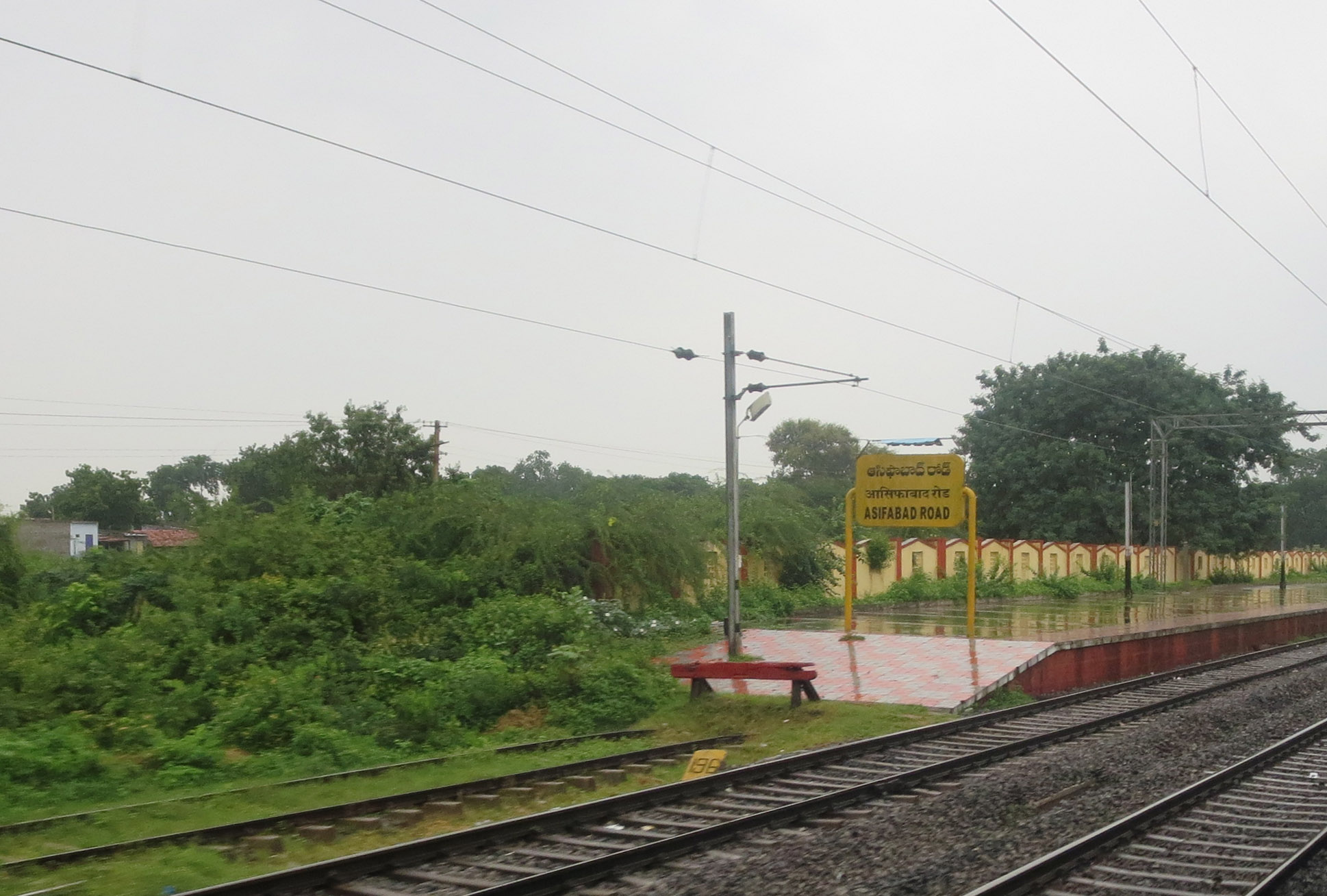 Asifabad Railway station name board